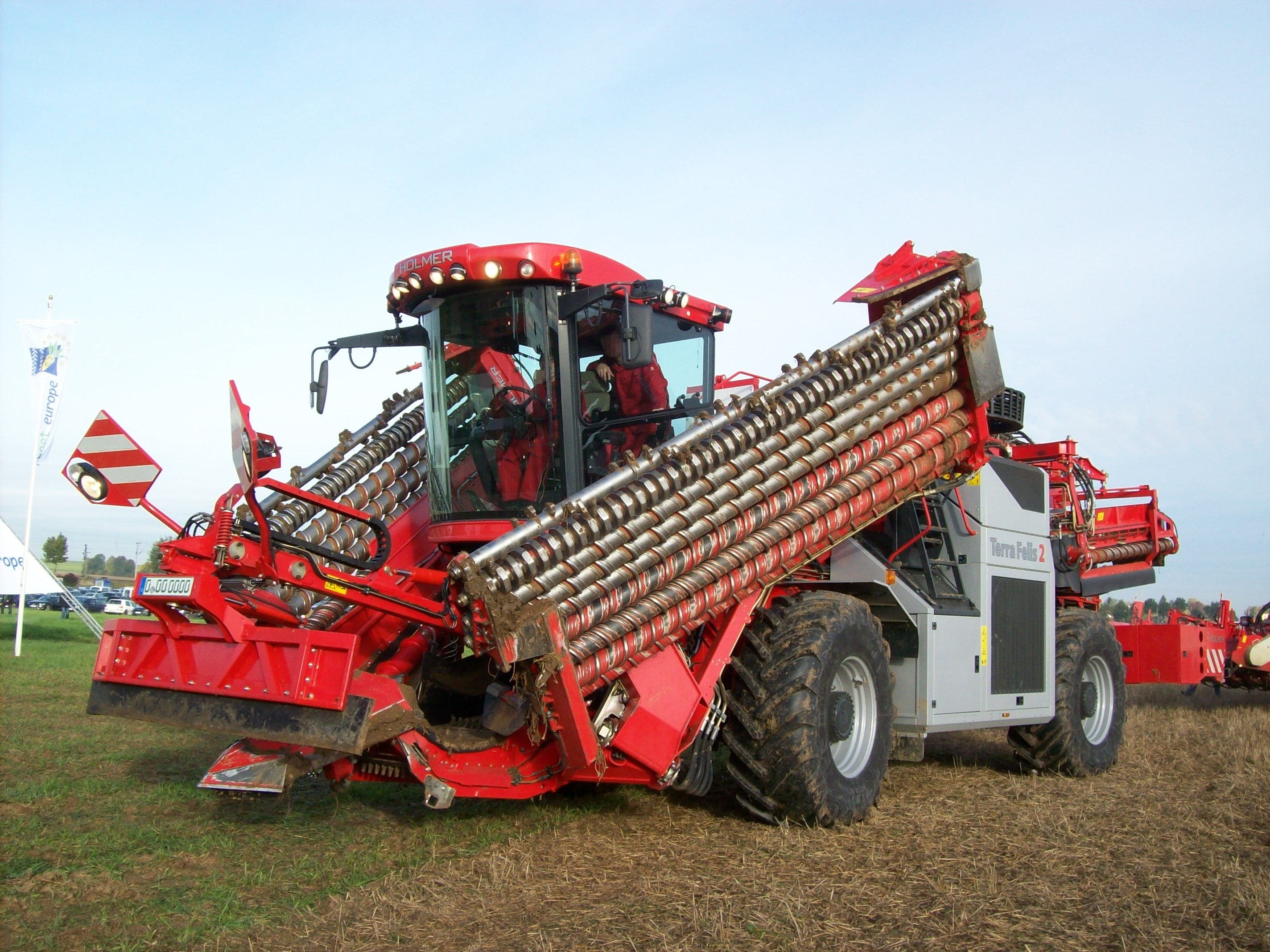 Holmer, beet cleaner loader Terra Felis2 in position to ride on the road, 2012 Year